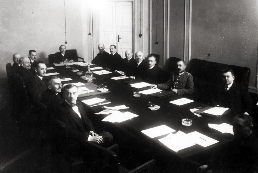 Polish Government under presidence of Prime Minister Leopold Skulski 1920